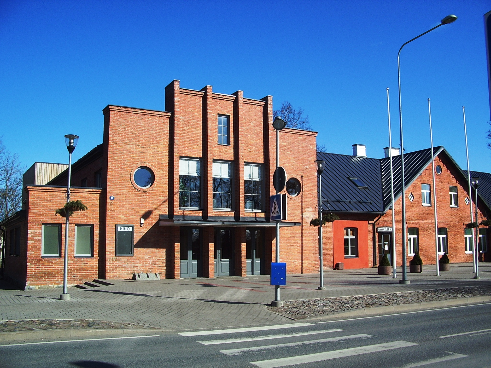 Culture center in Rapla town, Estonia. Tallinna mnt 17